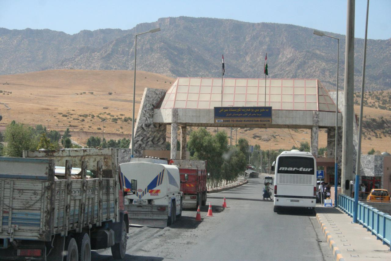 Ibrahim Khalil Border Iraq August 2009